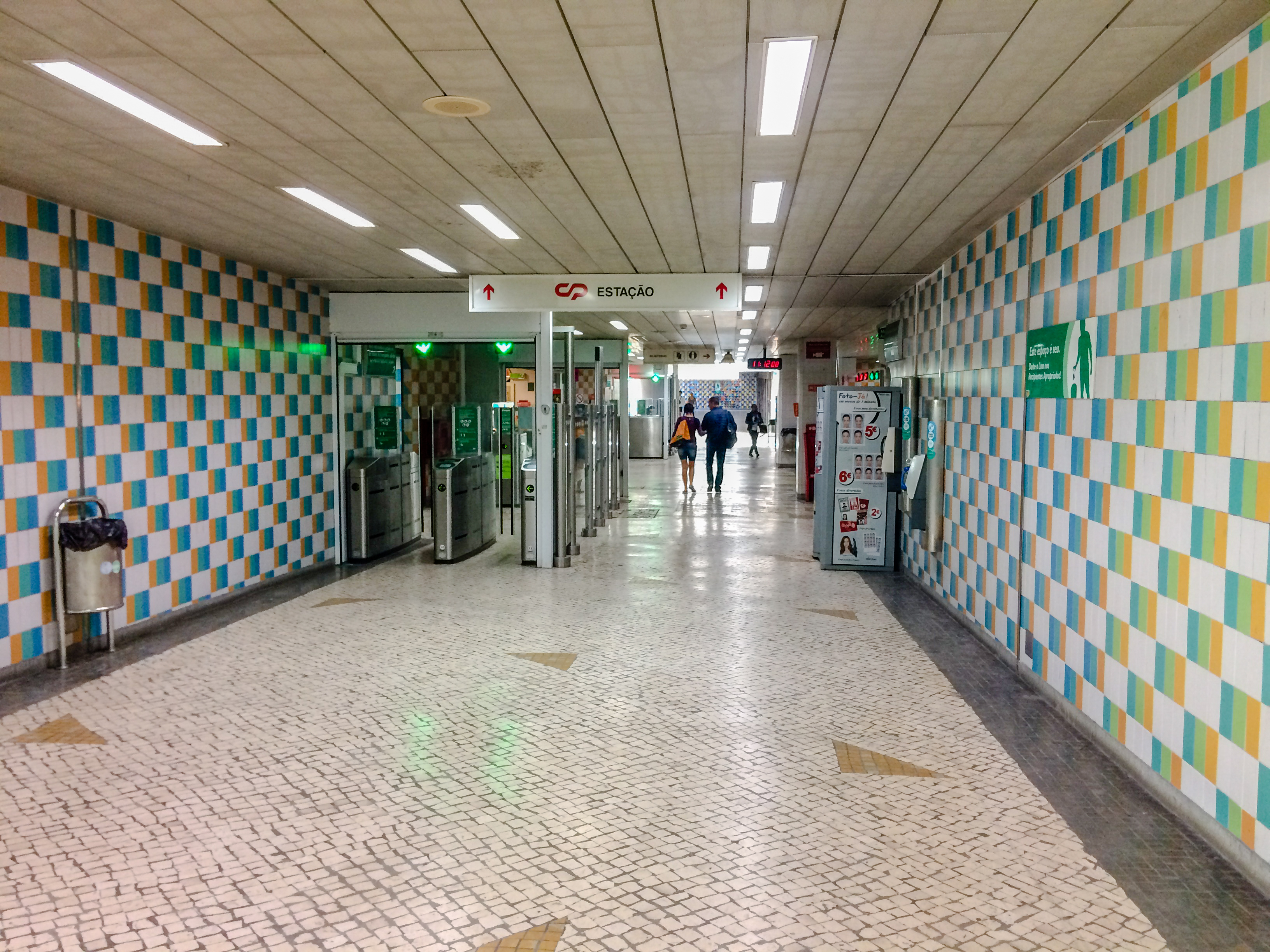 Underground access to the platforms of the Carcavelos train station.